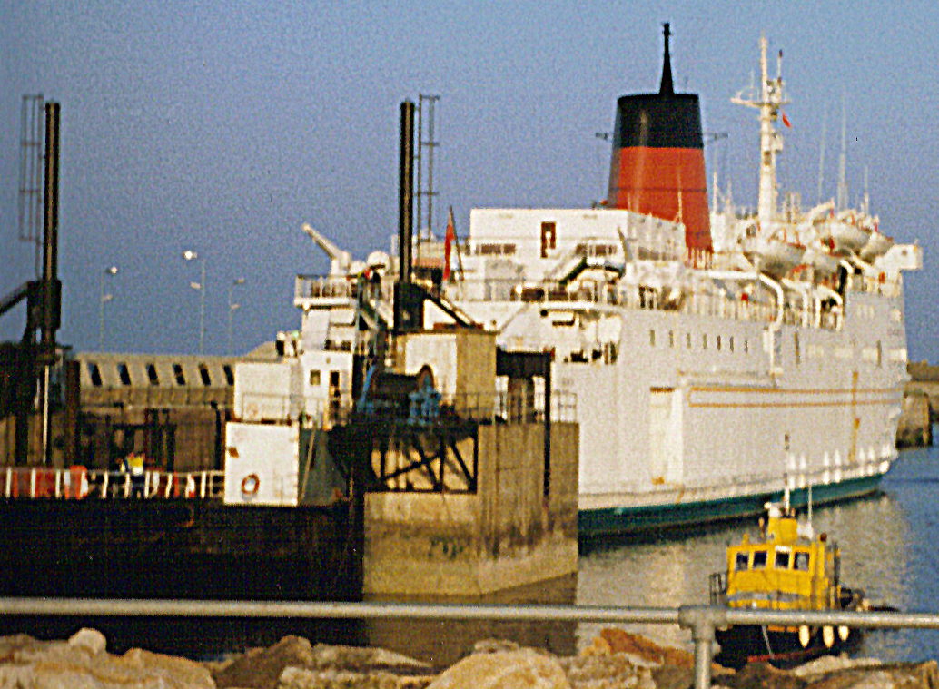 King Orry in Douglas Harbour